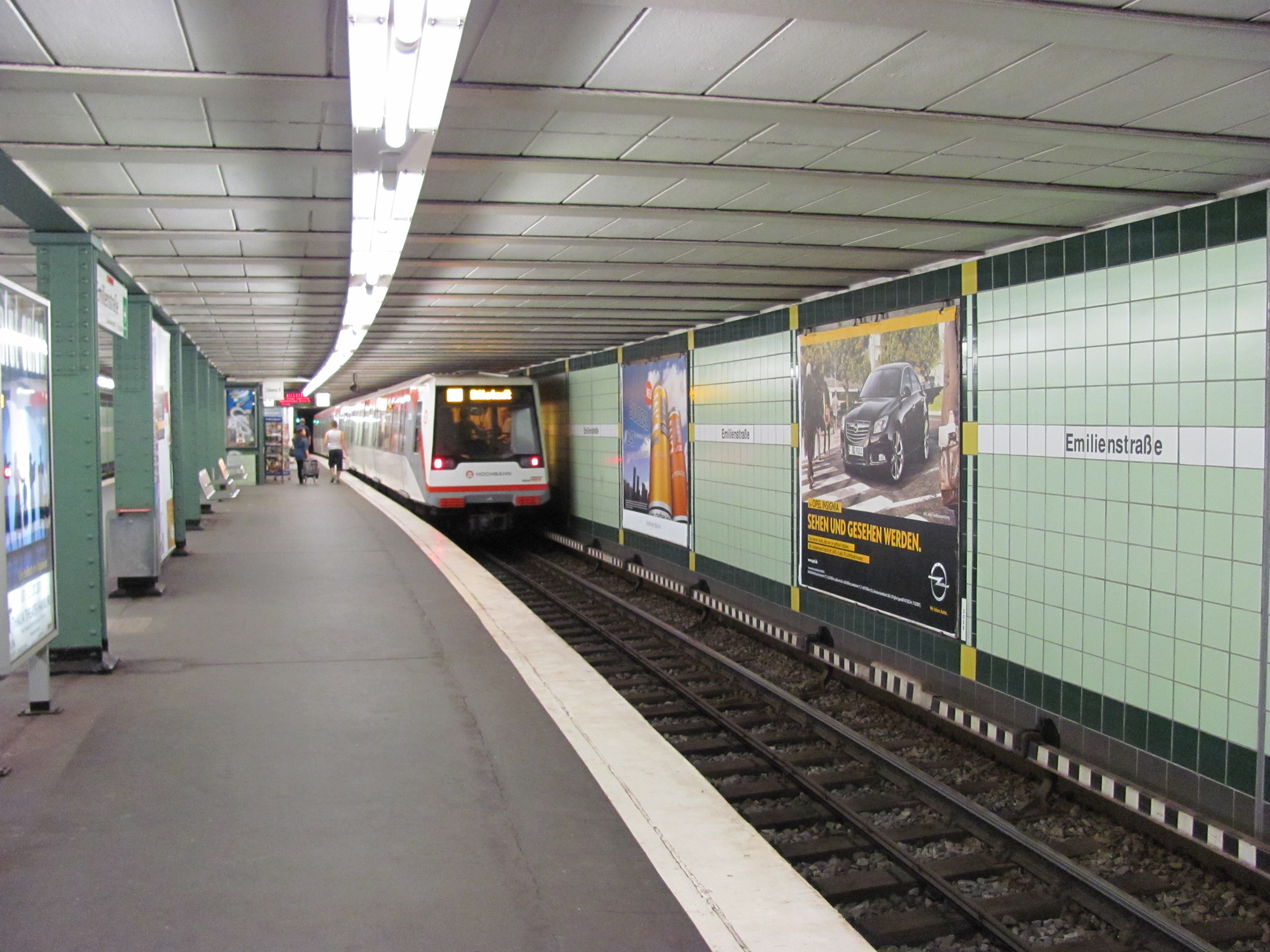 U-Bahn station Emilienstraße in Hamburg, Germany